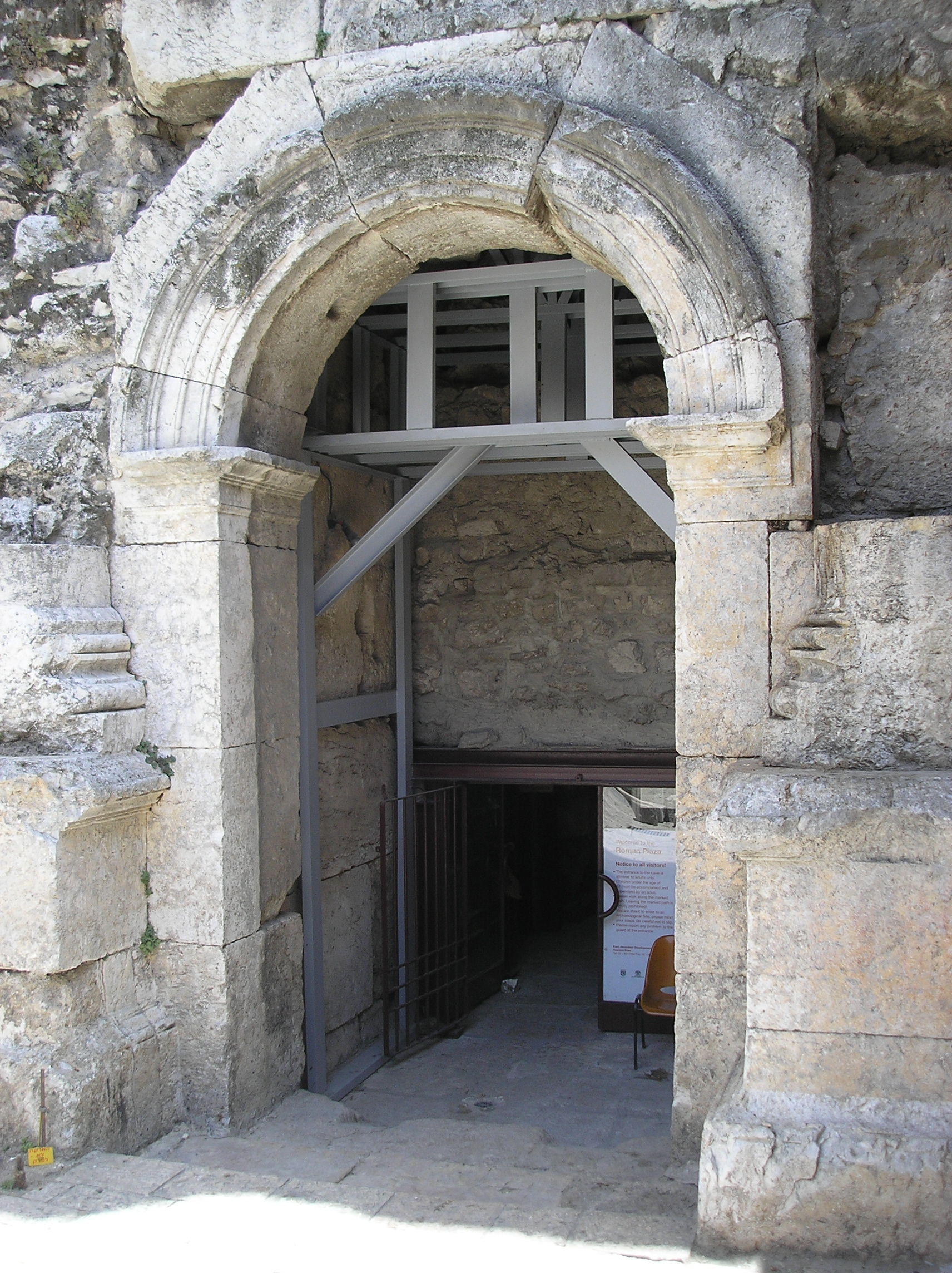 remains of the Roman Damascus Gate